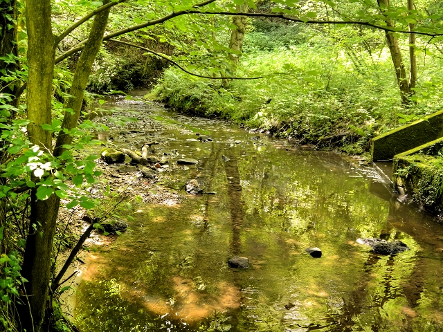 The River Chor in Ackhurst Wood, Chorley, Lancashire